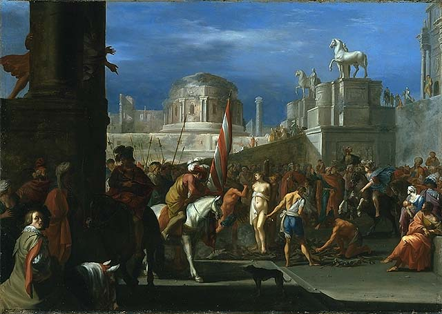 Clorinda Saving Olindo and Sofronia from the Stake